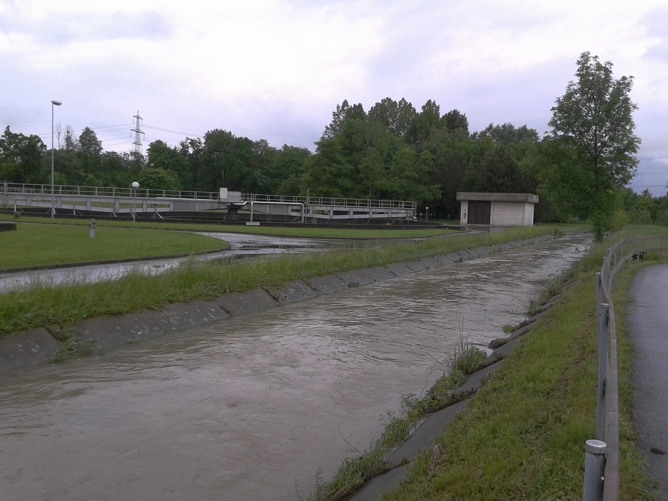 Karlesgraben by the ARA (wastewater treatment plant) in the marsh (Ried) in Dornbirn, Vorarlberg, Austria after the Confluence ARA-Spillway channel - Karlesgraben on 26/05/2015 shortly after a damp (60 l / m² / h)